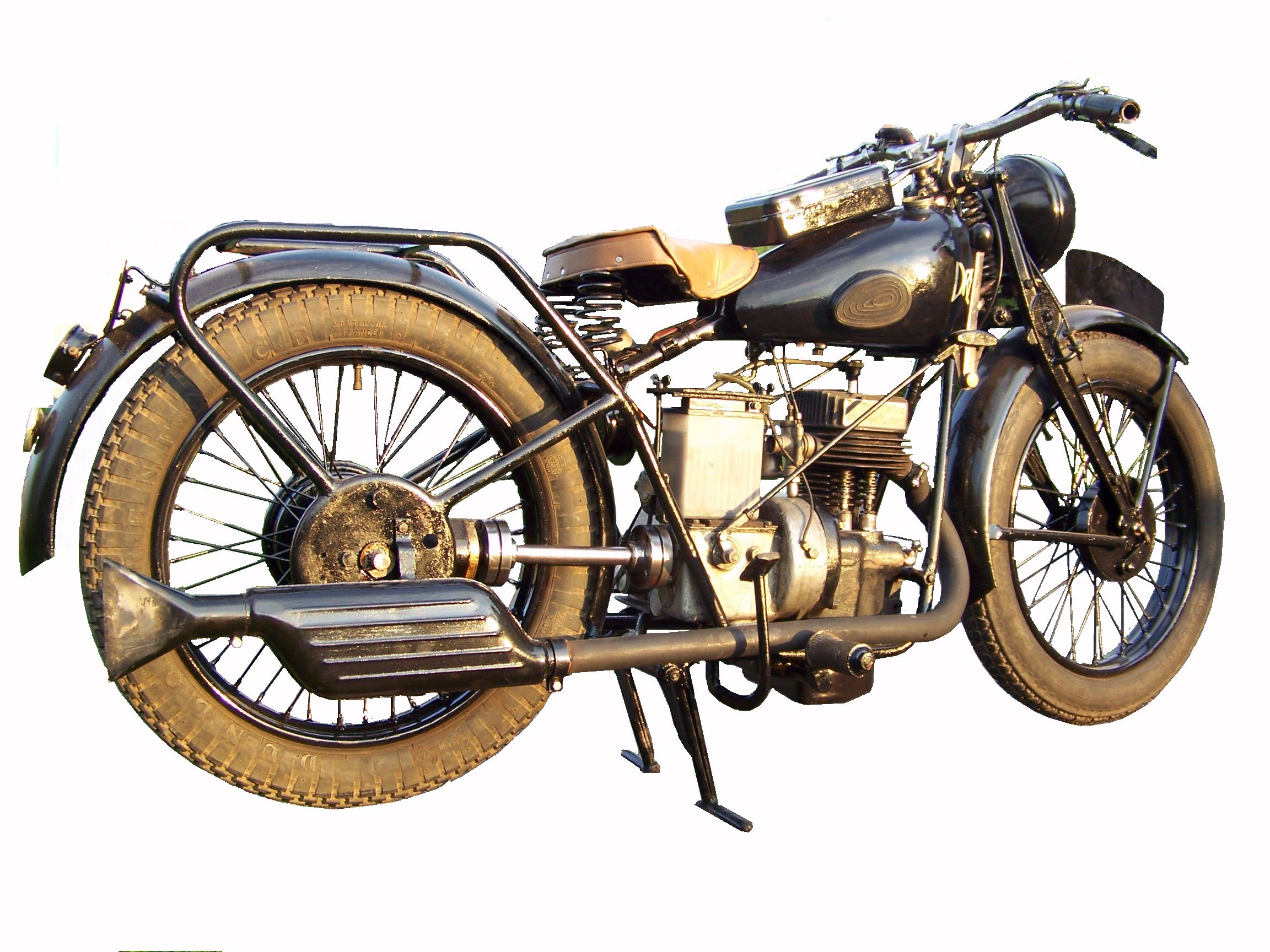 Dresch 350 36L side valve motor